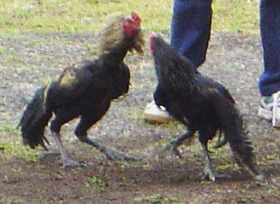 Apparently, some trial run for cock fighting, in Hell-Bourg, Réunion Island. (Animal fights are normally illegal on French territory, but there are exemptions for bull and cock fightings in locales where there is an uninterrupted tradition for such fights. It's thus highly probable that this fight was legal.)